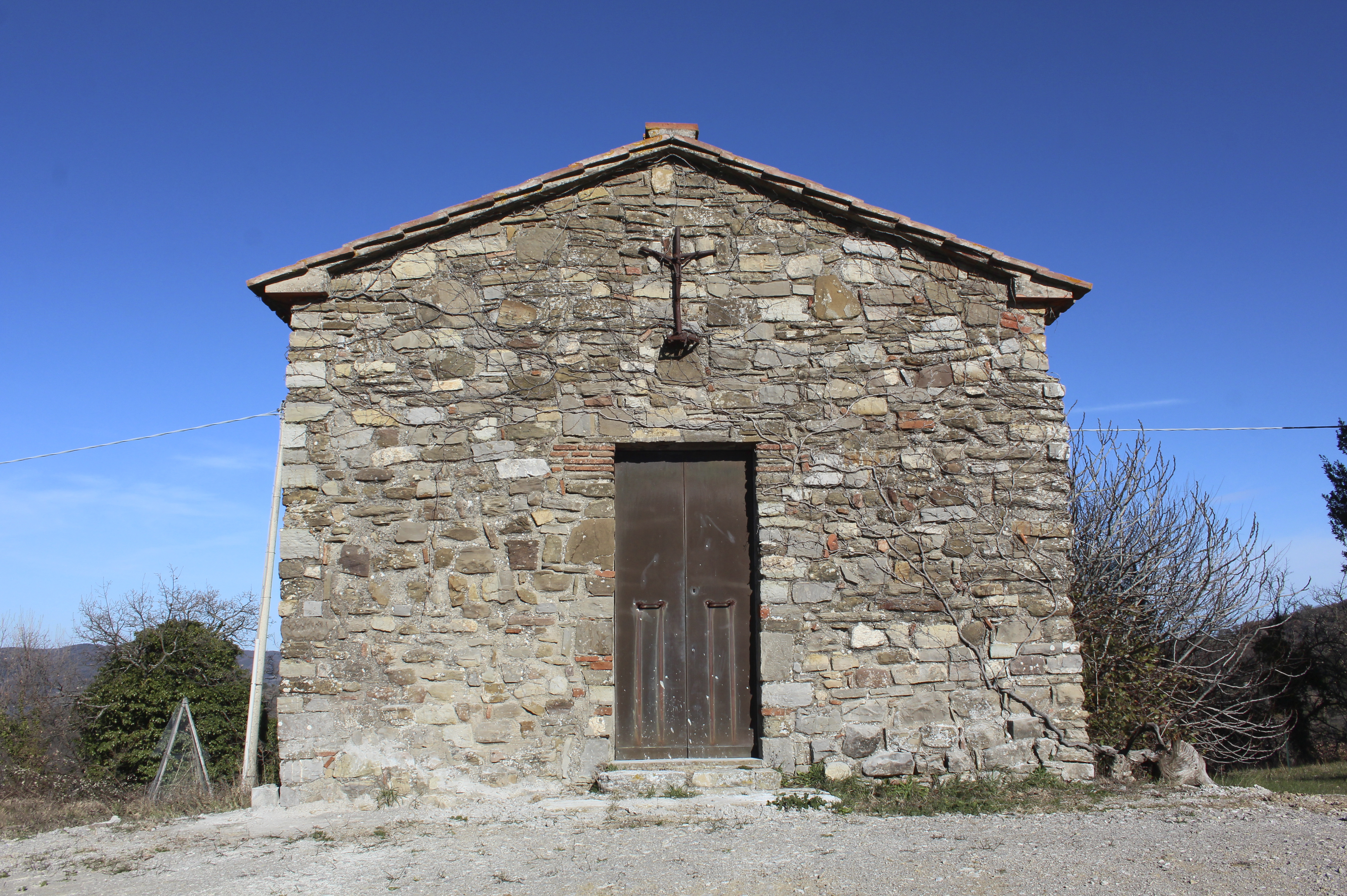 Church San Pietro, Vignanie, hamlet of Piegaro, Province of Perugia, Umbria, Italy